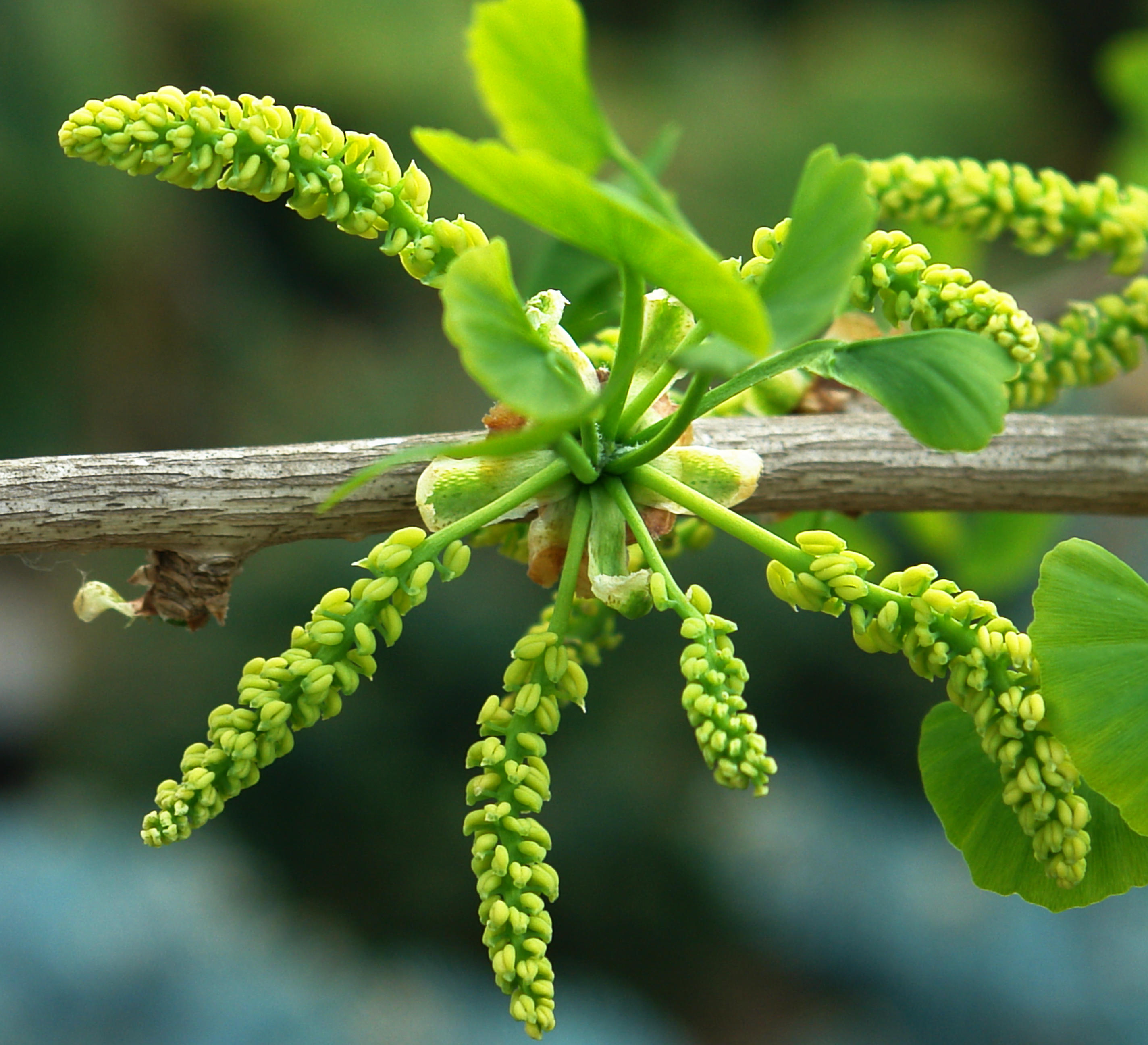 Maidenhair tree - male flower